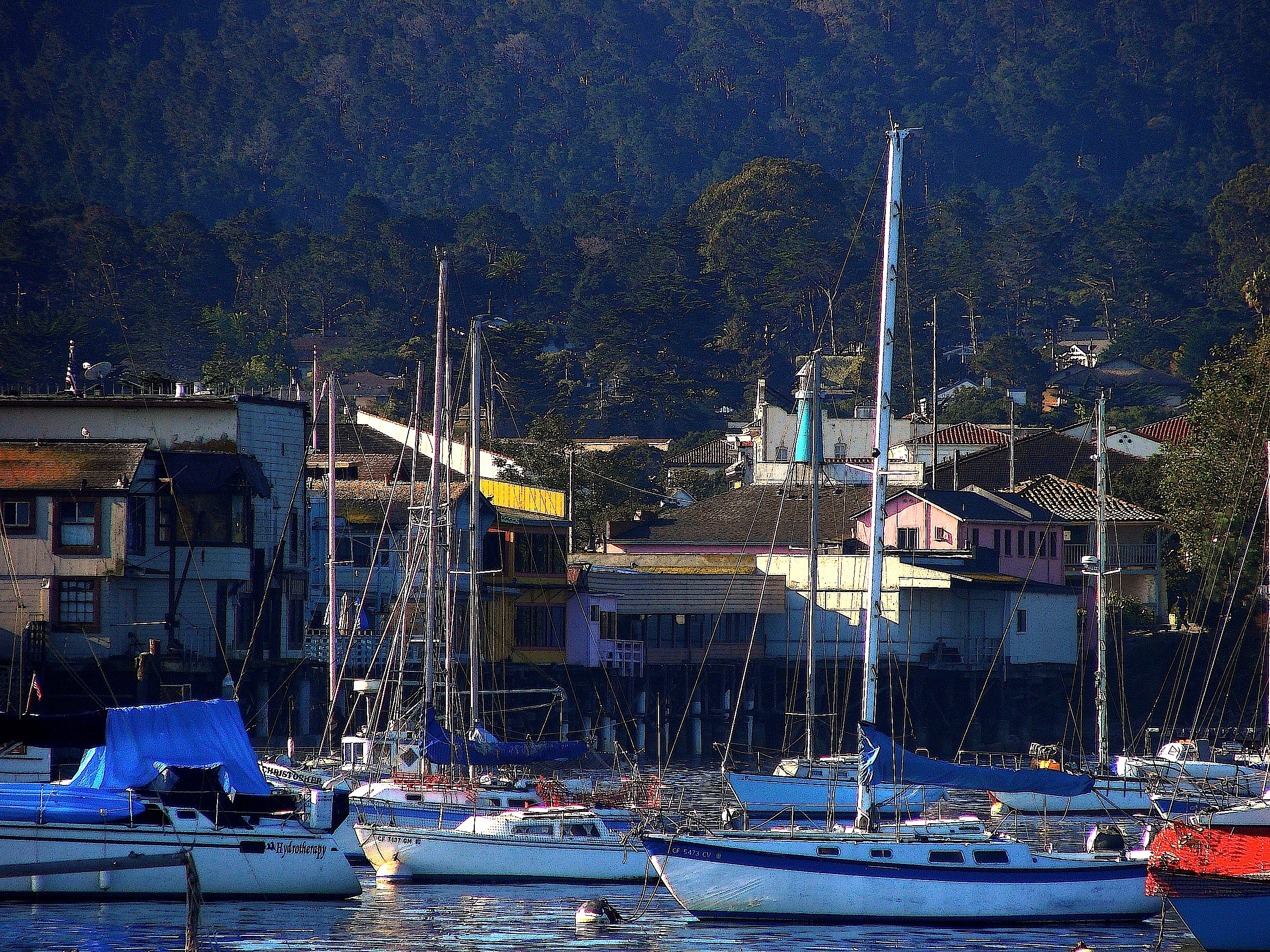 Monterey Harbor and Fisherman's Wharf, Monterey, CA